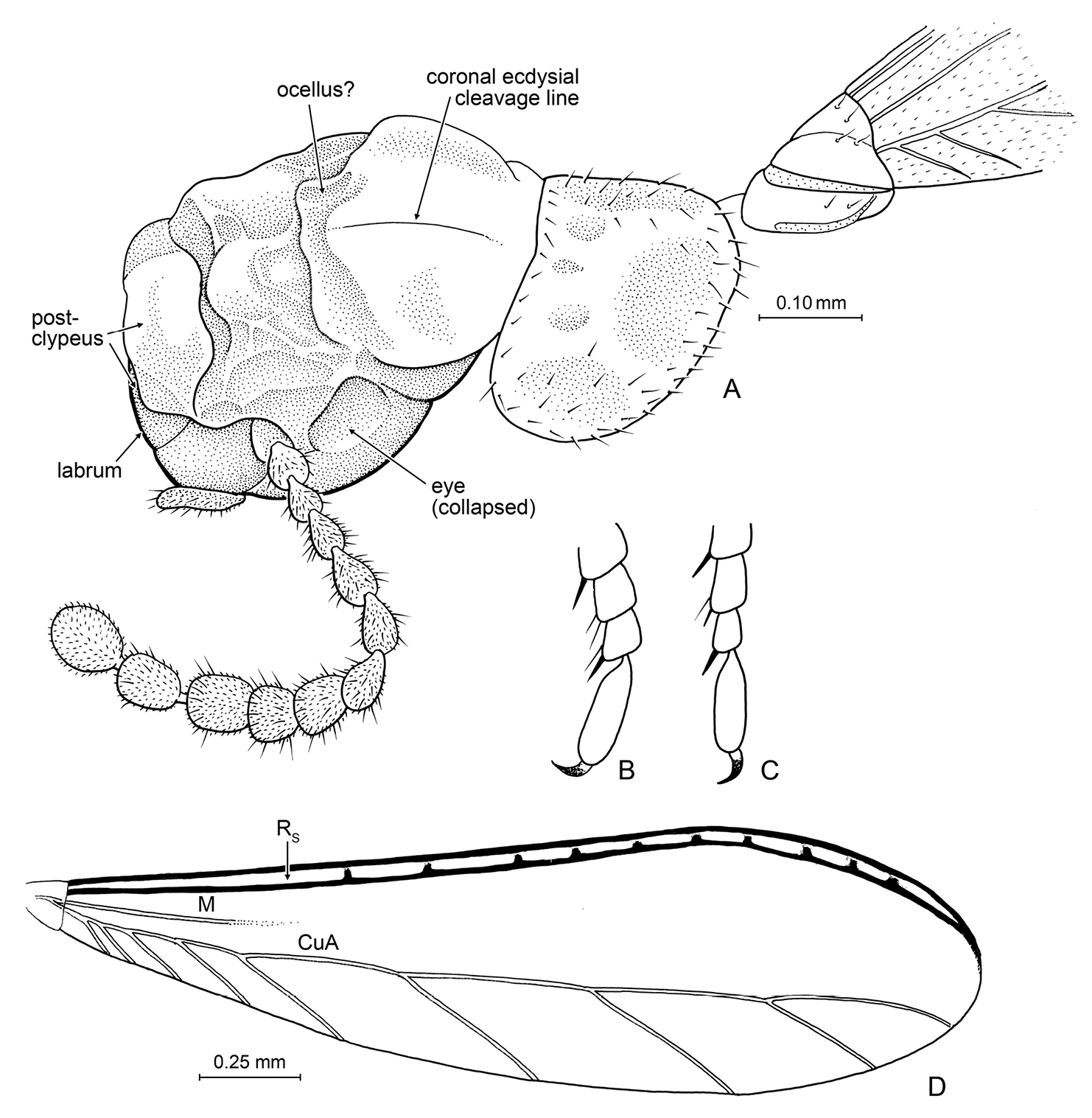 Details of Nanotermes isaacae Engel & Grimaldi, gen. et sp. n. (Tad-262). A Head (as preserved, showing preservational distortion), pronotum, and base of right forewing B Protarsus, propretarsus, and extreme apex of protibia C Metatarsus, meta-pretarsus, and extreme apex of metatibia D Forewing (reconstructed from both wings). Detail enlargements in B and C not to same scale.